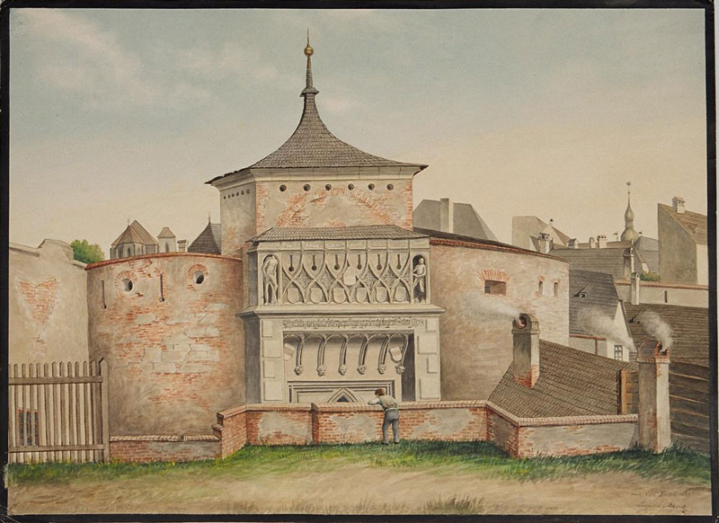 The Jewish Gate in Brno prior to 1835.